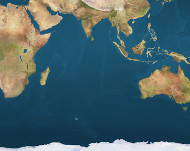 Location map of the Indian Ocean Equirectangular projection. Geographic limits of the map: N: 35° N S: 72° S W: 15° E E: 150° E